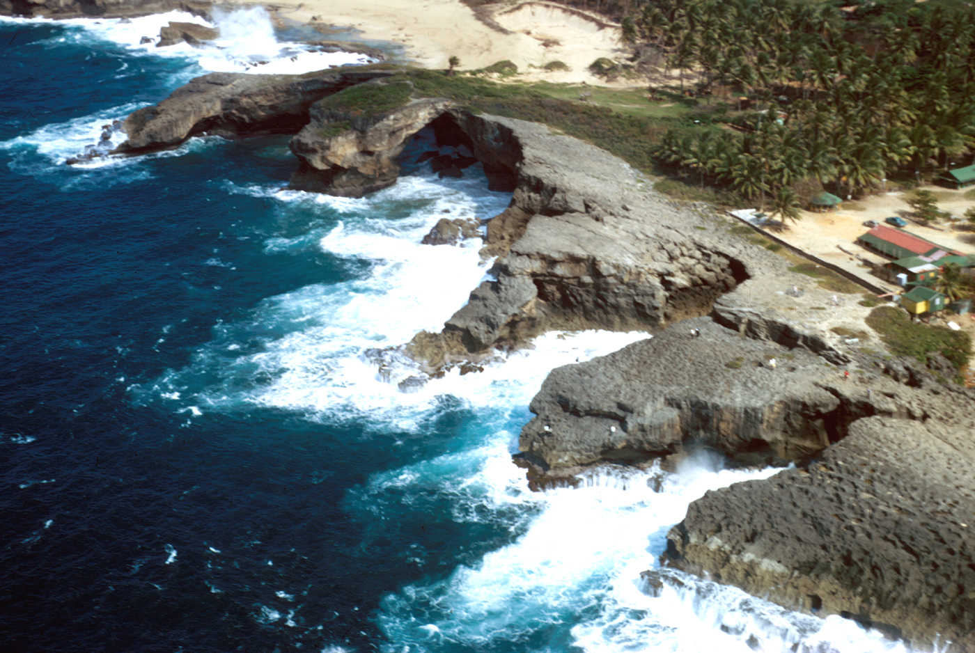 Puerto Rico. Cueva del Indio, a sea cave eroded in eolianite, just east of Punta Las Tunas on the Atlantic coast, 8 kilometers east-northeast of Arecibo. The name derived from petroglyphs on the cave walls. Image file: /htmllib/btch219/btch219j/btch219z/mwh00054.jpg